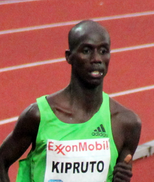 Brimin Kipruto at the 2011 Bislett Games